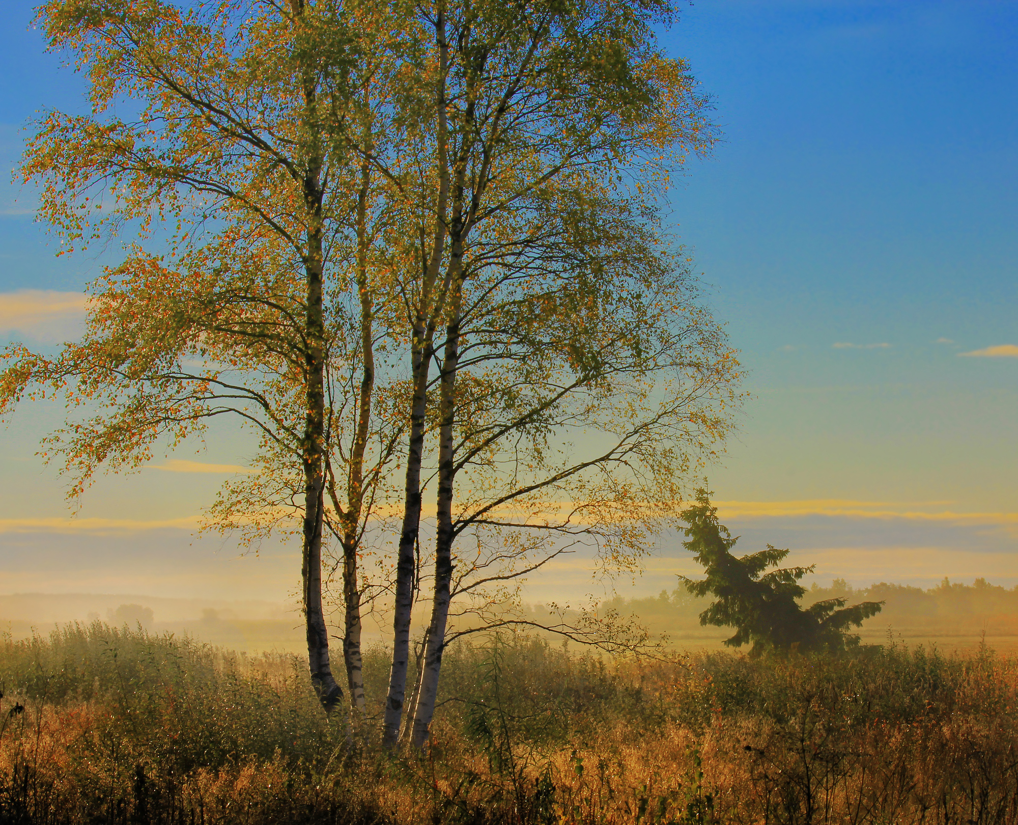 Morning light